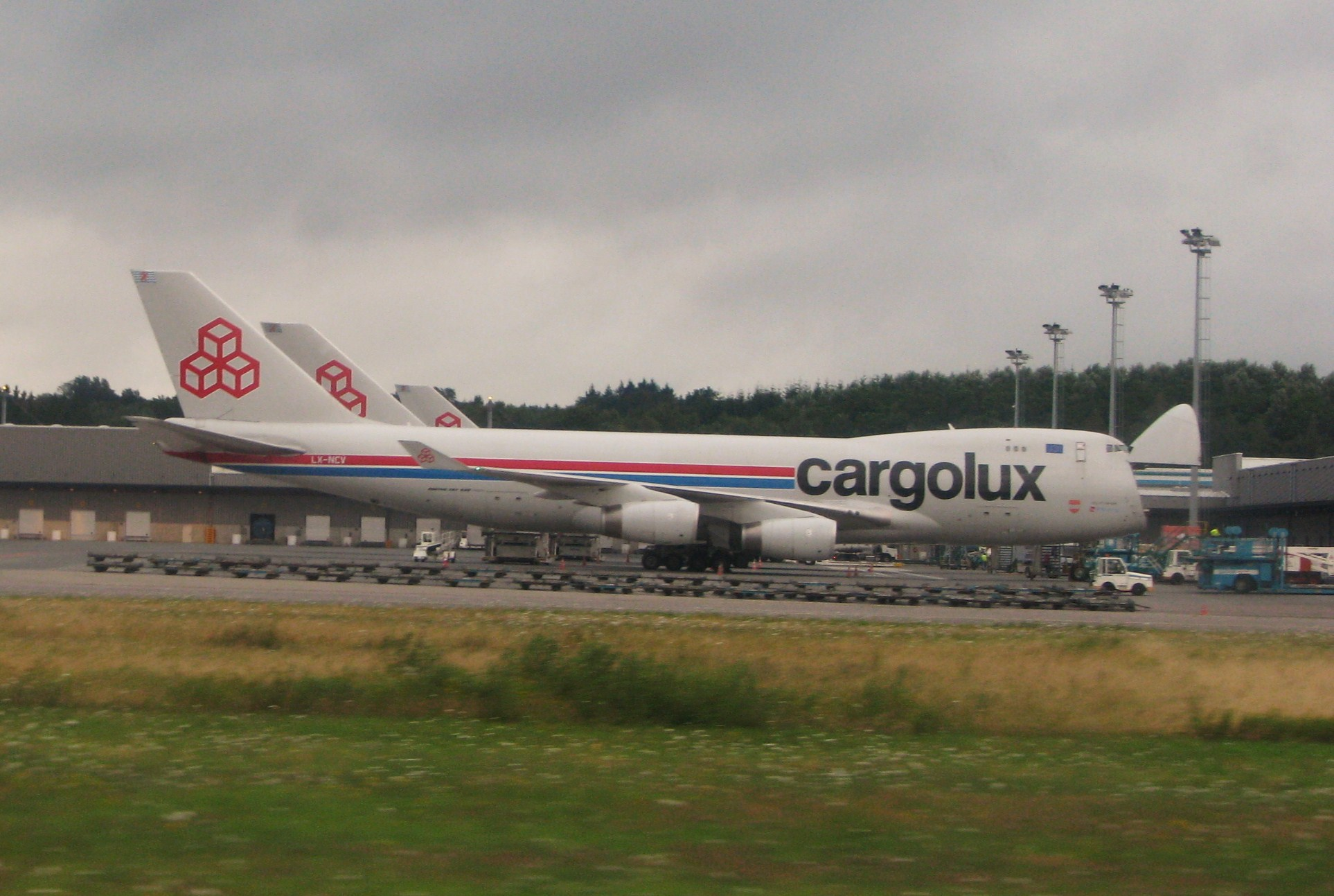 Cargolux Boeing 747-400F on Luxembourg Findel Airport